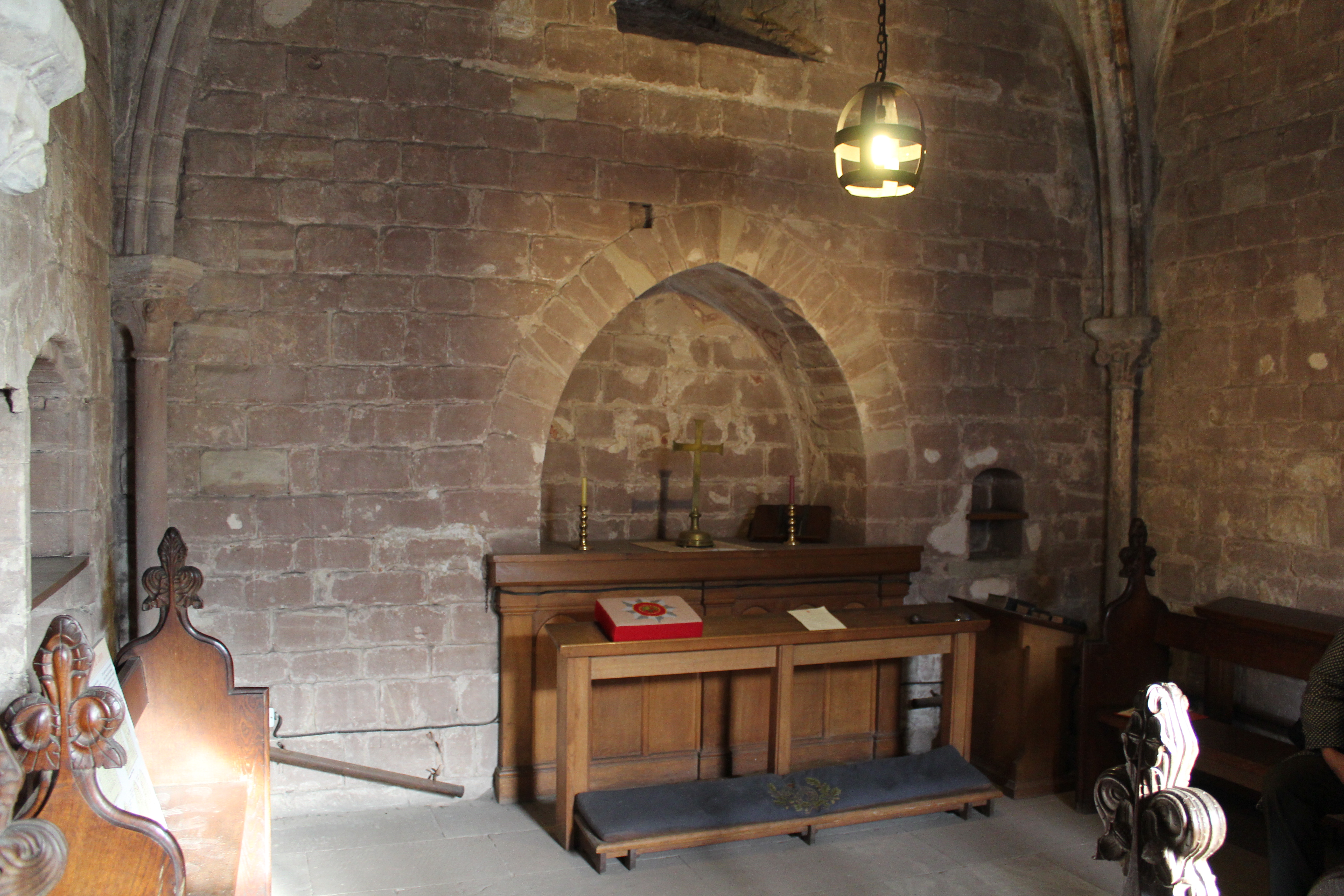 CBA North-west Autumn meeting: tour round Chester Castle. The chapel of St Mary ad Castro within the Agricola Tower.